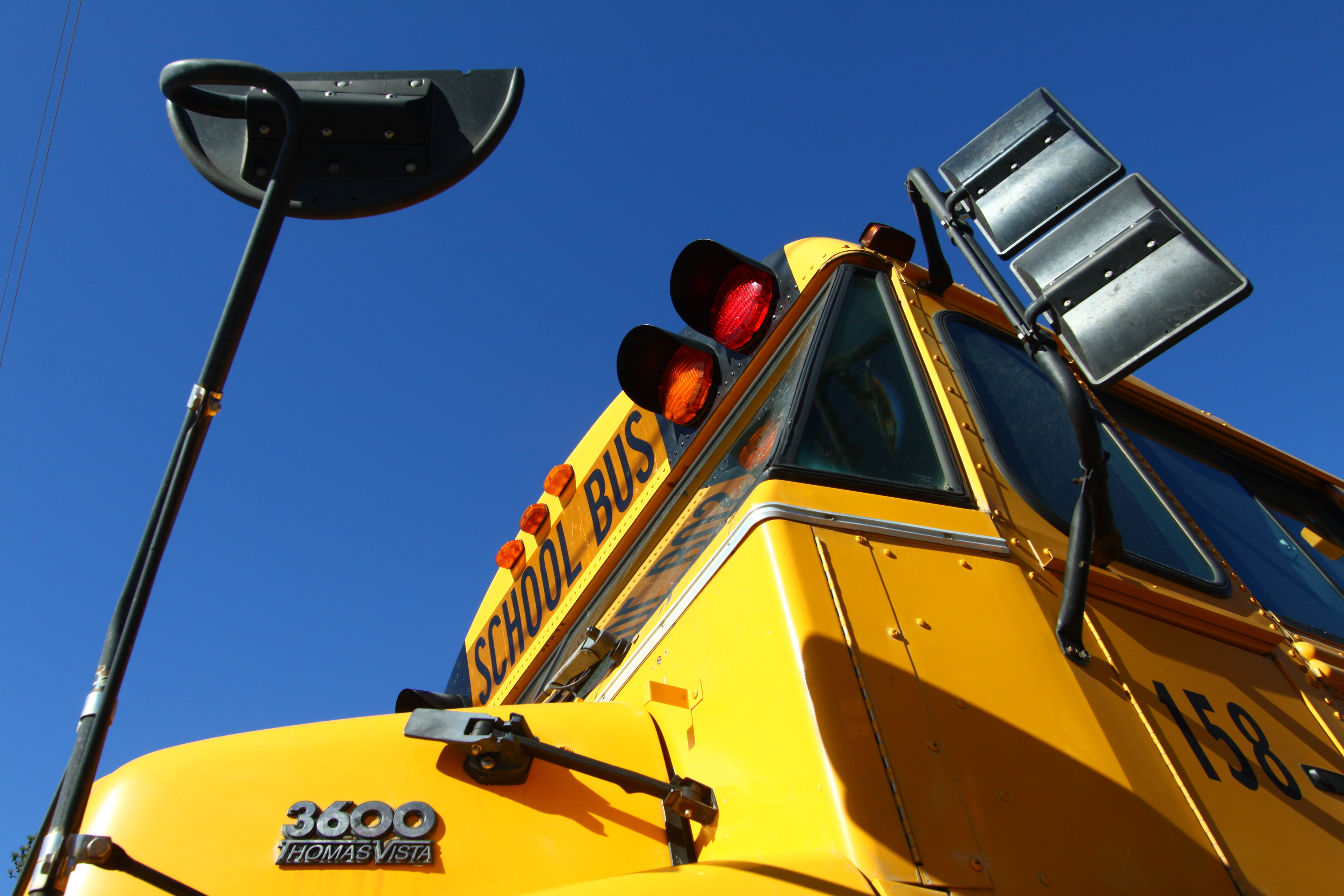 A closeup photograph of the hood and windshield of a Thomas Vista school bus, photographed from below.